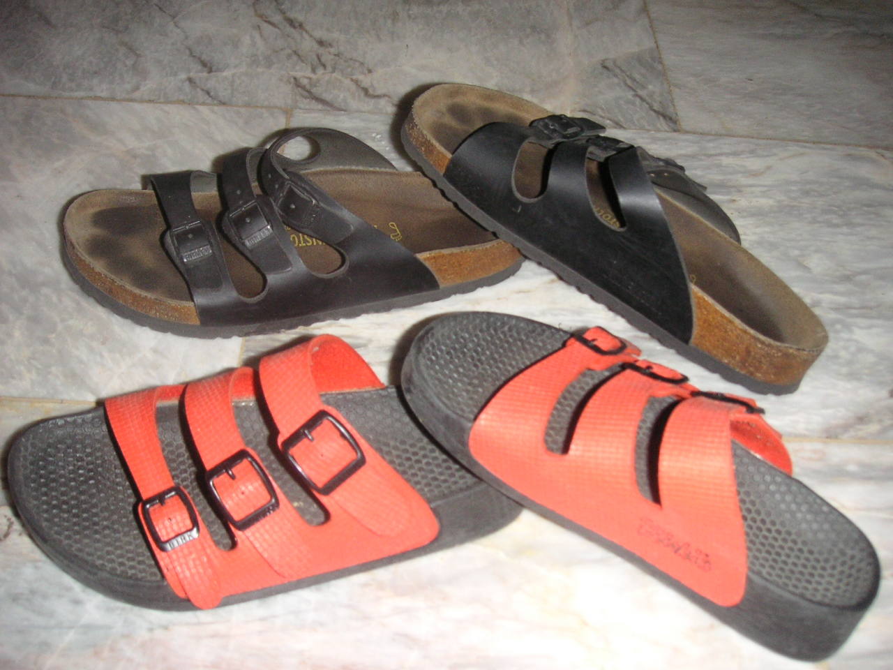 Author's own picture. Birkenstock sandals.